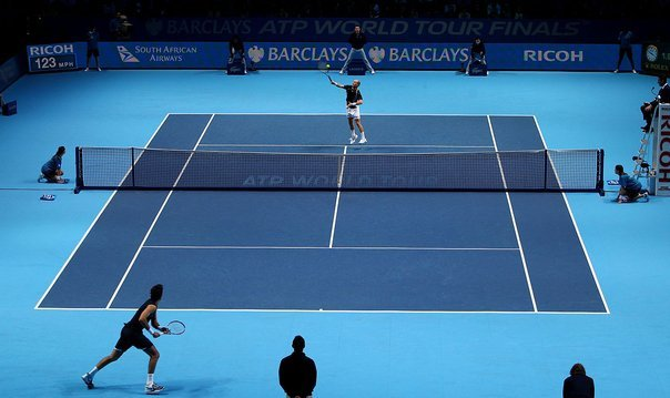 Del Potro in the final of the 2009 Masters tournament in London.